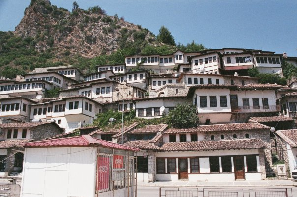 Mangalem, Berat, Albania